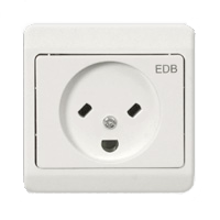 Danish computer equipment outlet and plug (mainly used in professional environment). Nicknamed "dumb face sockets" in Denmark. Talk:Mains power plug for full information.